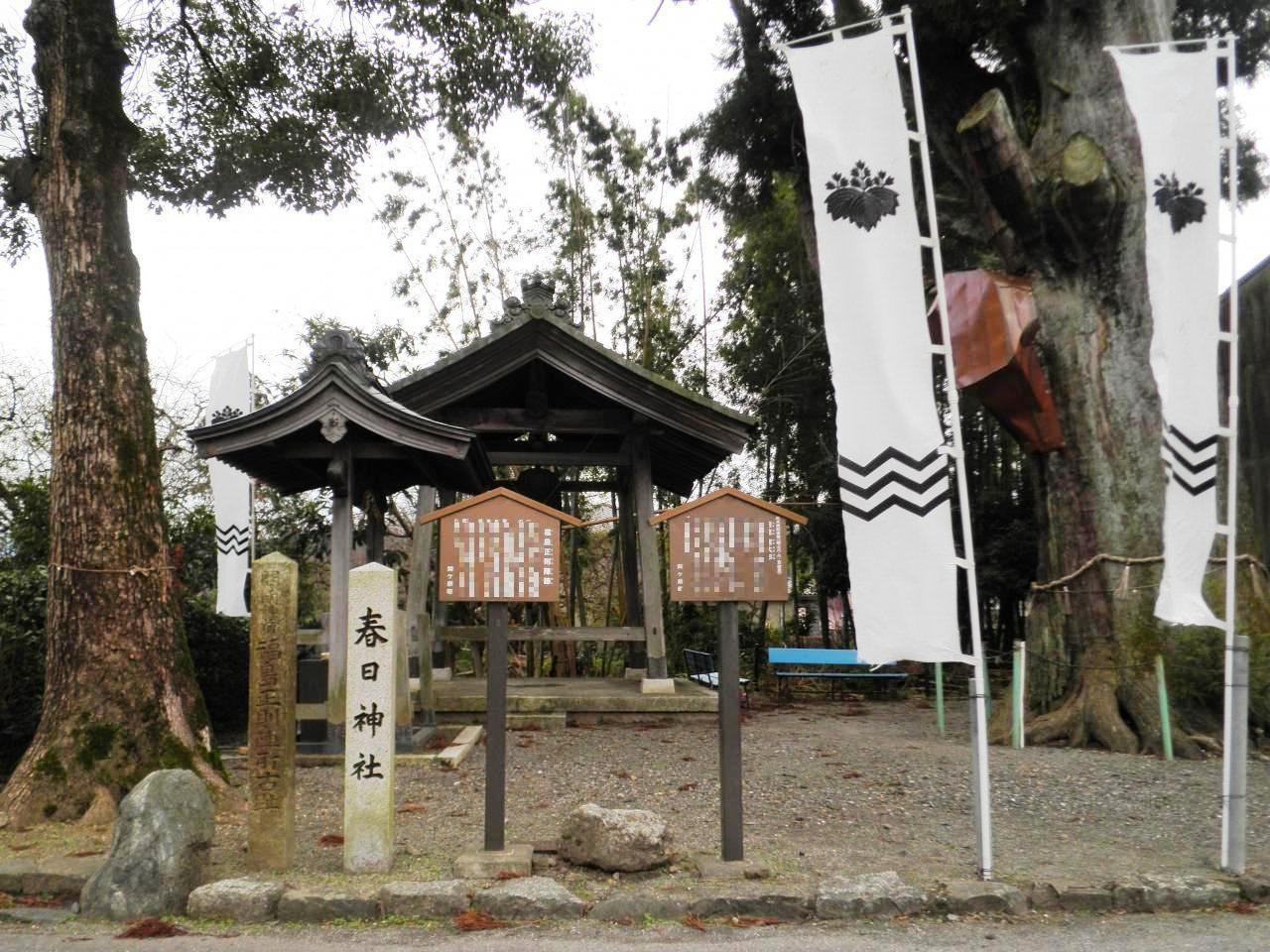 Site of Fukushima Masanori's position in the Battle of Sekigahara.